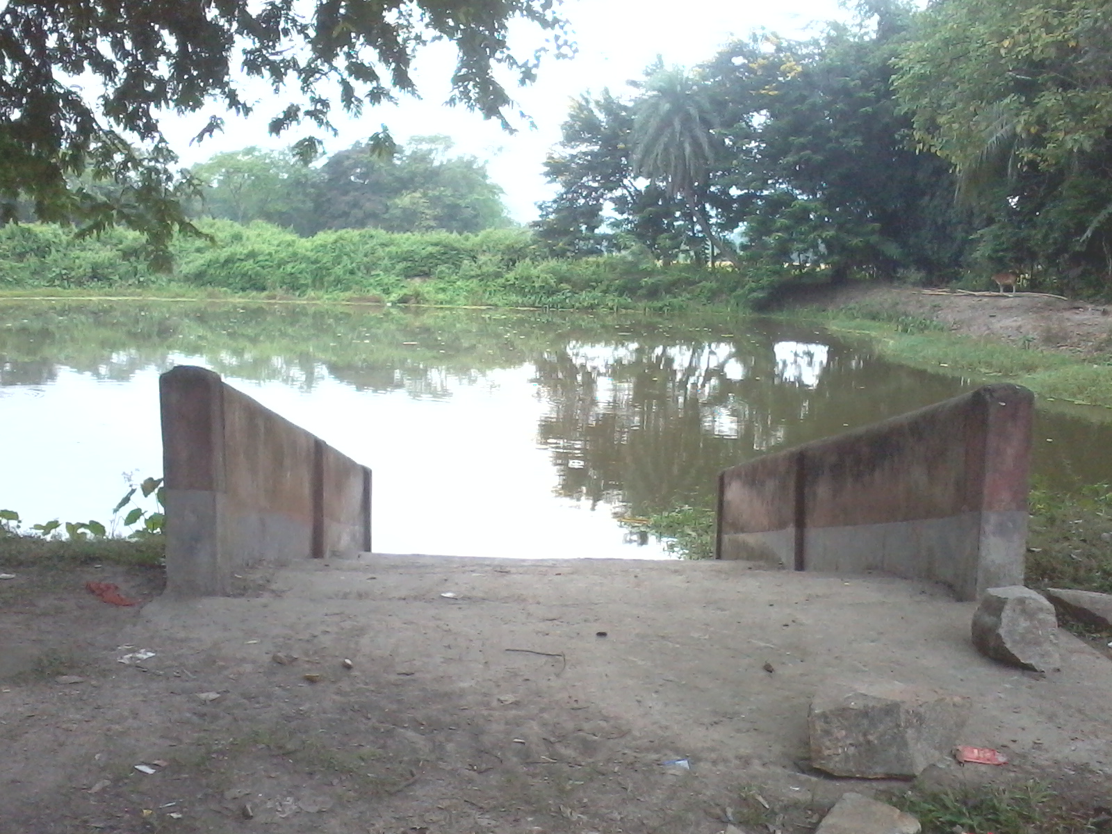 visited Rudreswar Devaloya in North Guwahati and took the photo